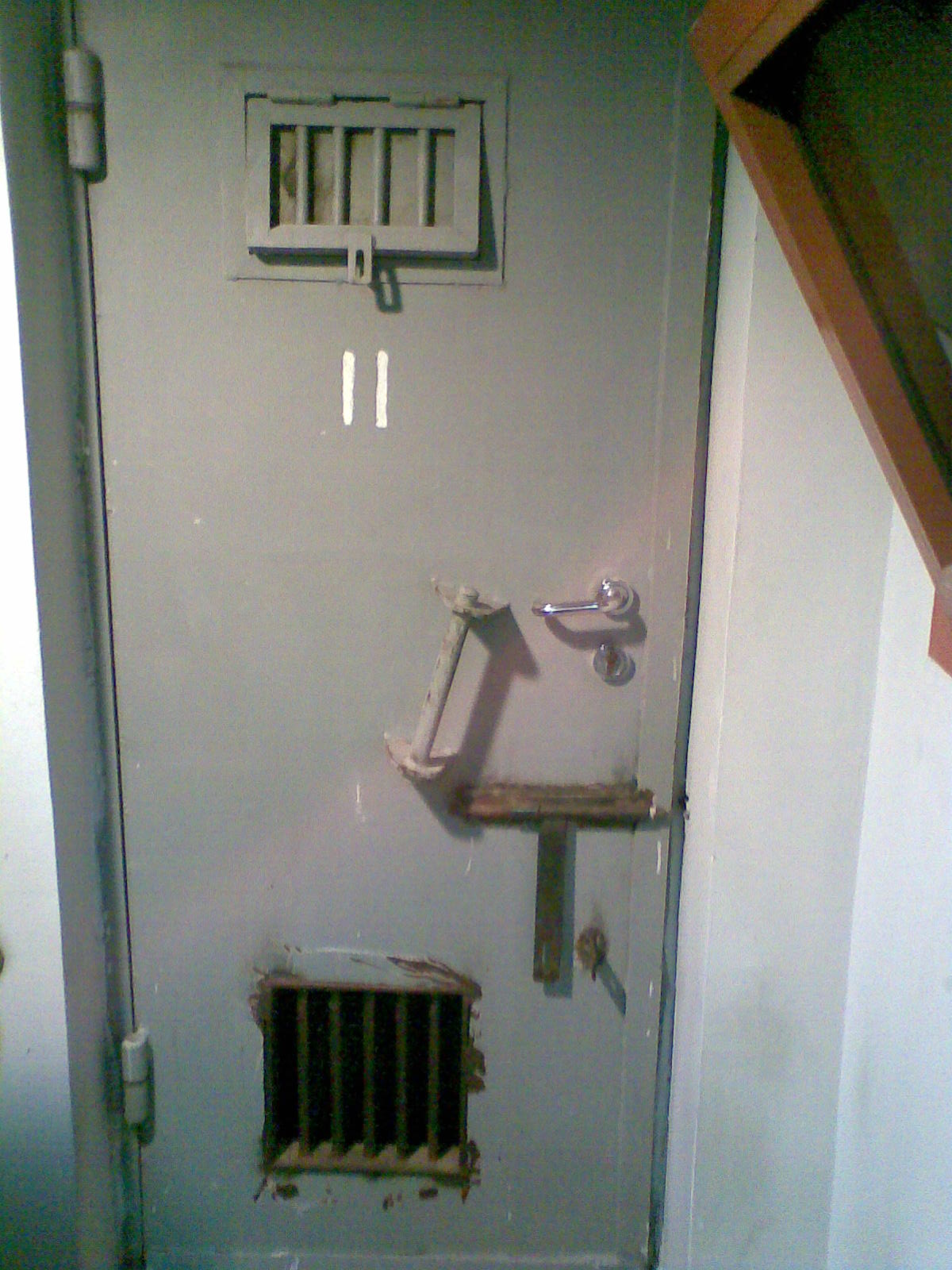 Underground cells in Egyptian State Security HQ in Nasr City - Cairo. Protesters stormed SSI Headquarters across all Egypt during the Egyptian Revolution of 2011.